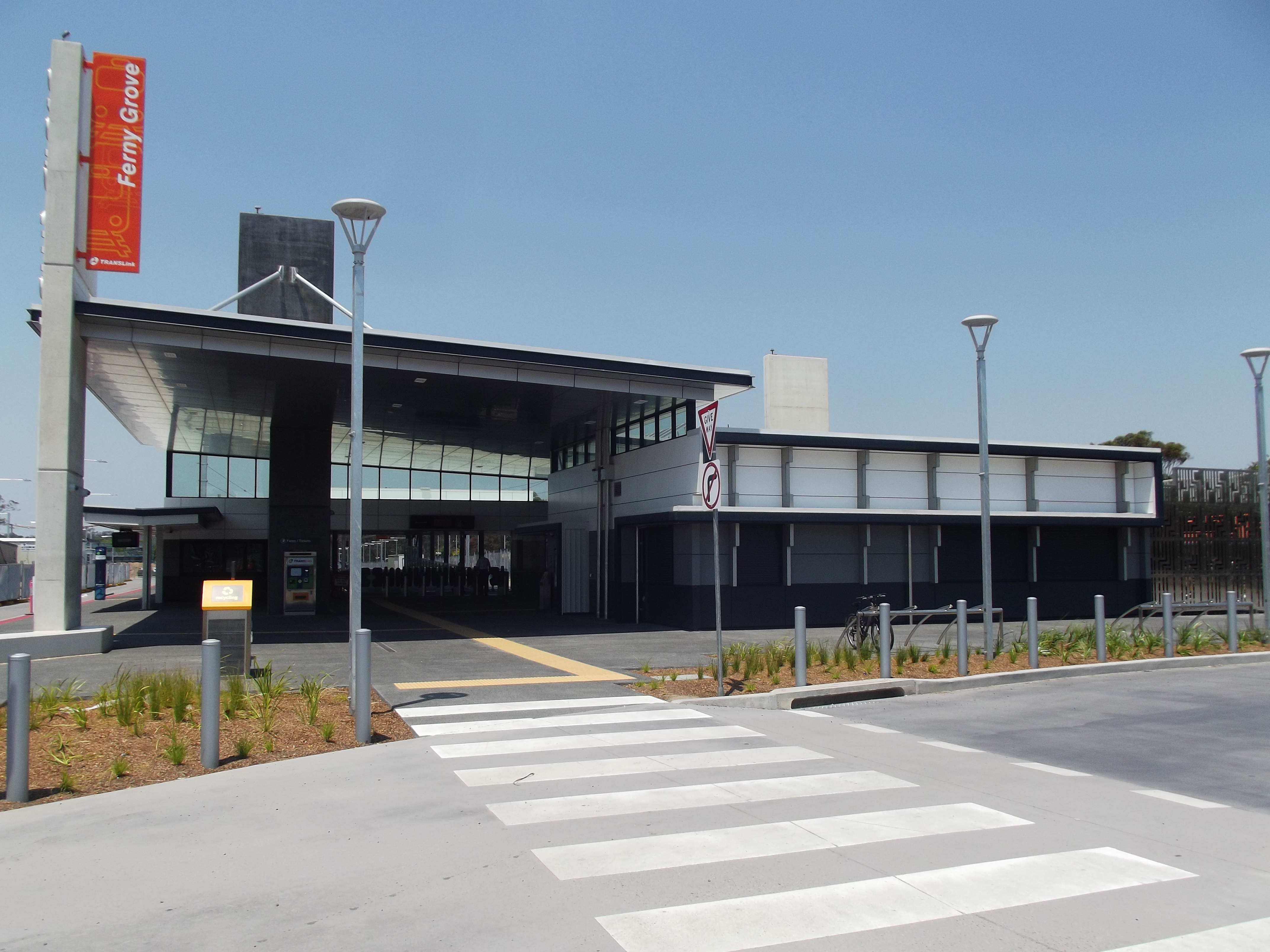 Newly upgraded Ferny Grove station building.